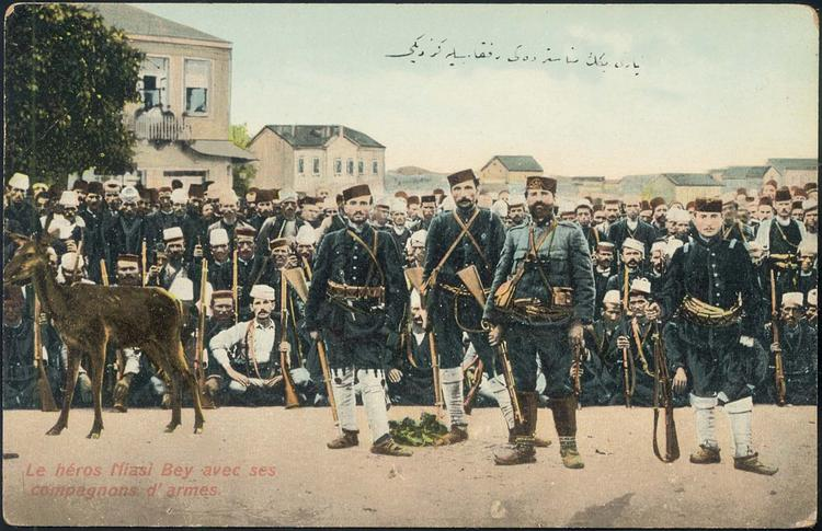 Postcard: "The hero Niazi Bey with his companions in arms"